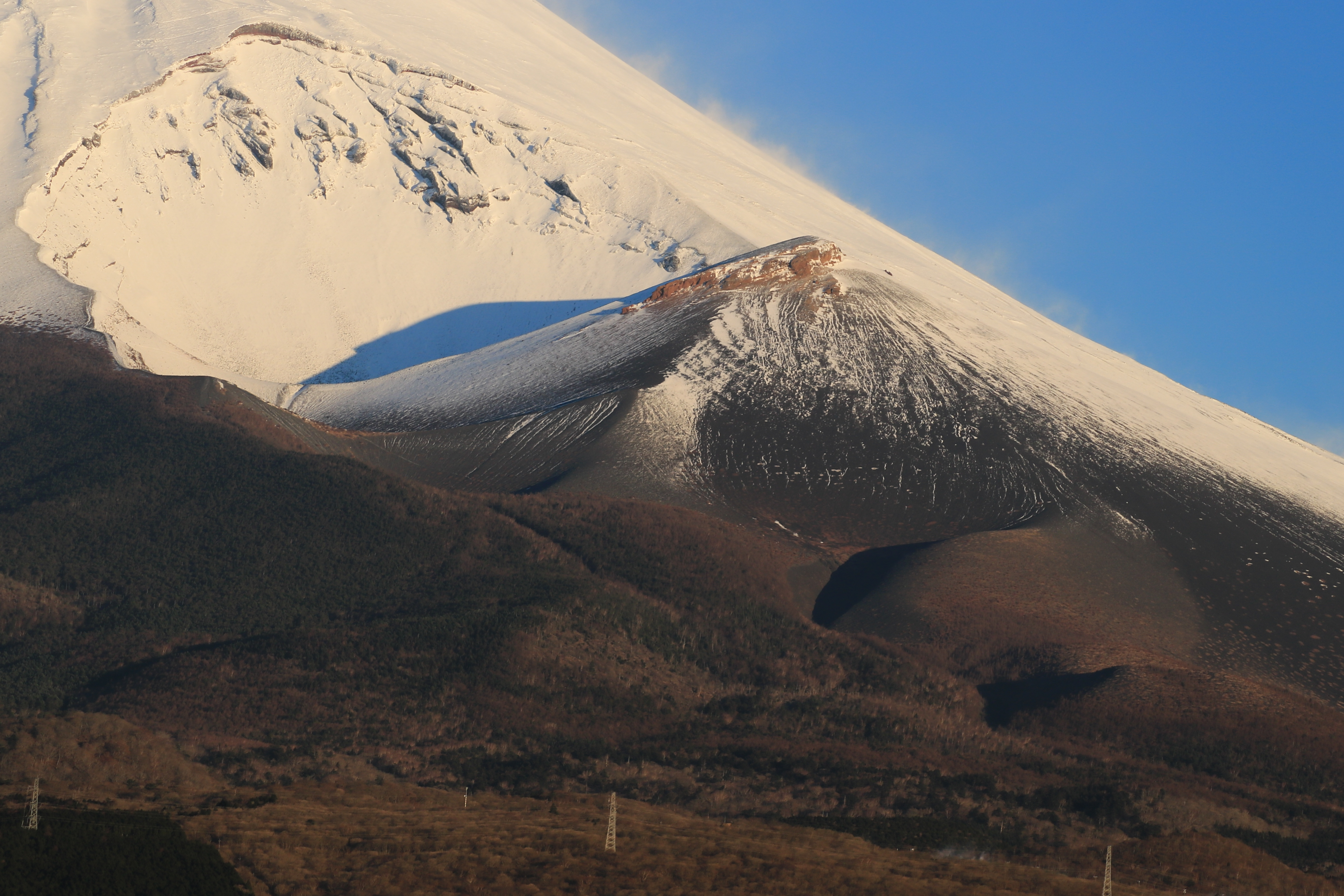 Mount Hoei seen from Jurigi Plateau in Shizuoka Prefecture, Japan.